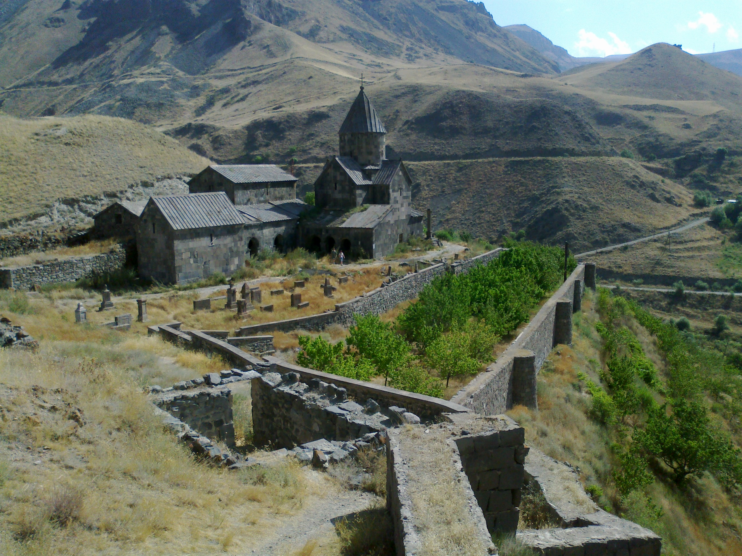 Vorotnavank Monastery in Syunik Province, Armenia